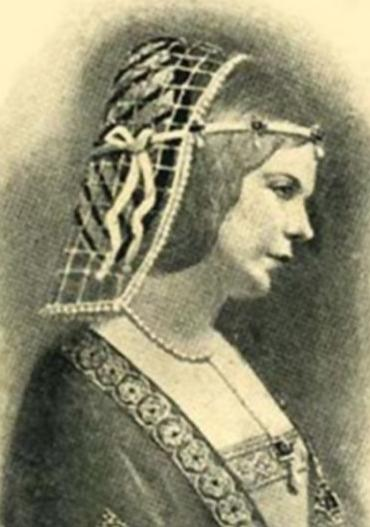 Louise de Savoie (b. 1462 - d. 1503), roman catholic nun, beatified